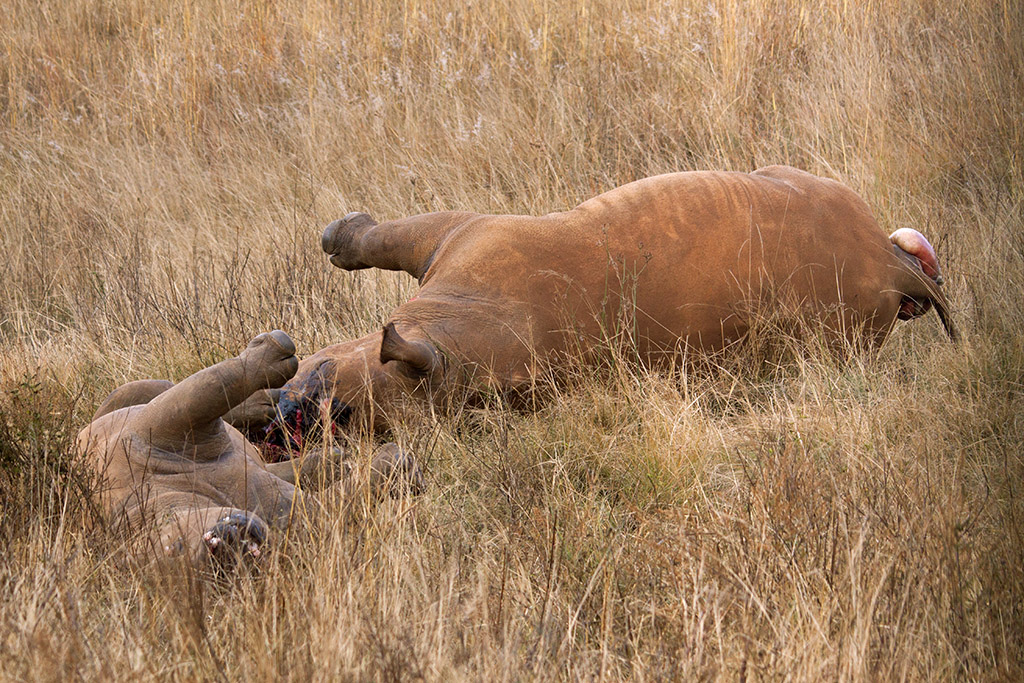 Mother and young rhinoceros killed for their horns. At the beginning of the 20th century there were 500,000 rhinos; in 1970 there were 70,000; today, there are fewer than 29,000 rhinos surviving in the wild. Between 1970 and 1992, large-scale poaching caused a dramatic 96% collapse in numbers of the Critically Endangered black rhino. 95% of all the rhinos in the world have now been killed. Taken at private game farm in Gauteng, South Africa.